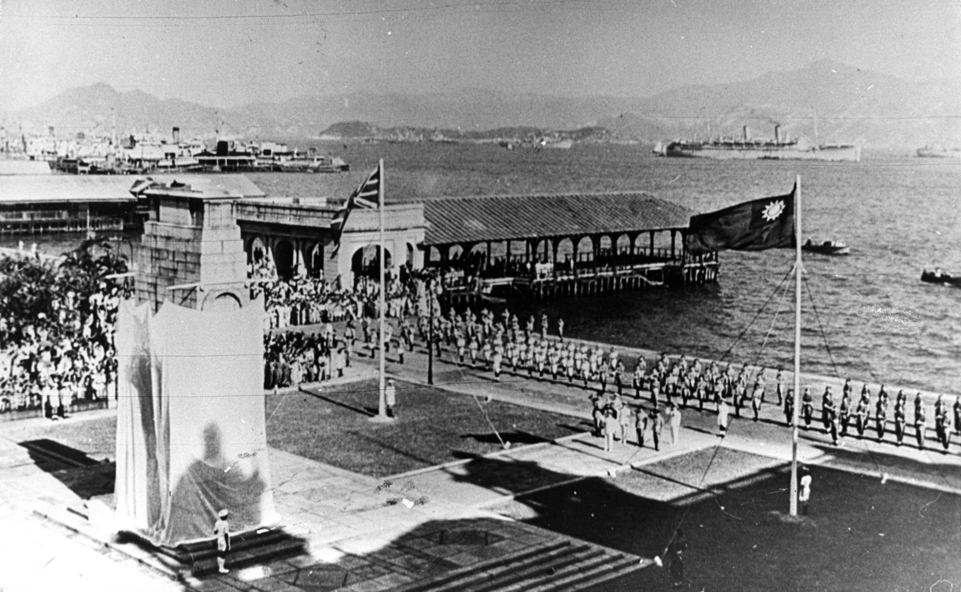 Liberation of Hong Kong in 1945 after the Second World War. Picture taken at the Cenotaph in Central, Hong Kong.